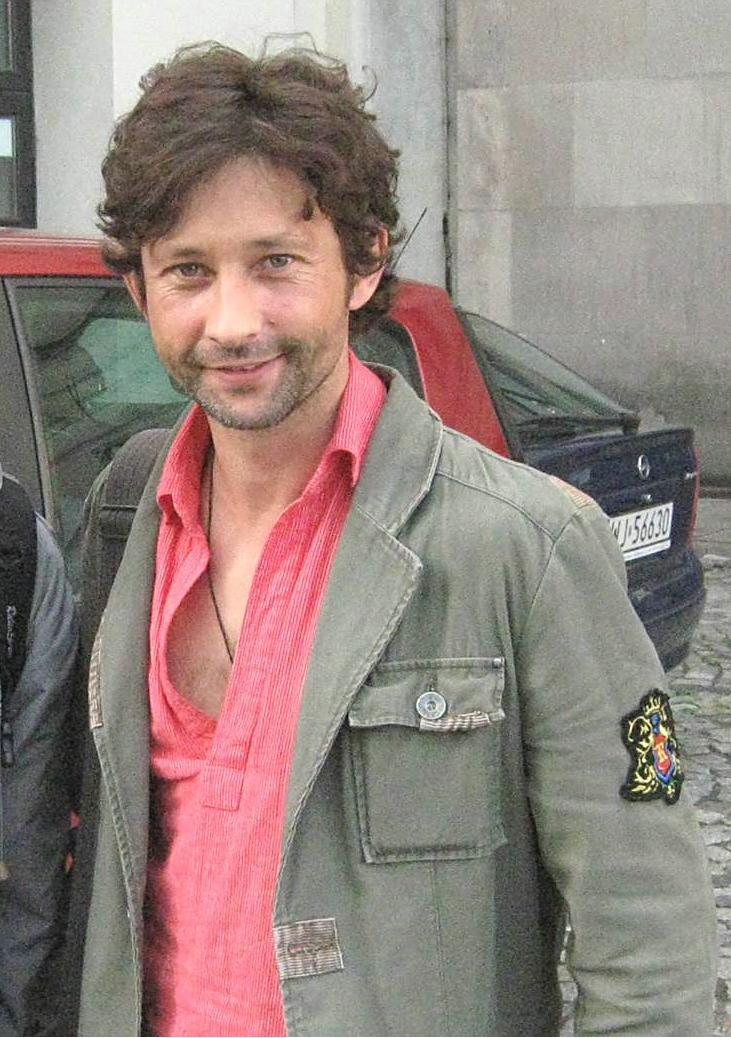 Polish actor Leszek Zduń.